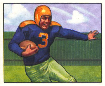 Green Bay Packers halfback Tony Canadeo on a 1950 Bowman Gum football card